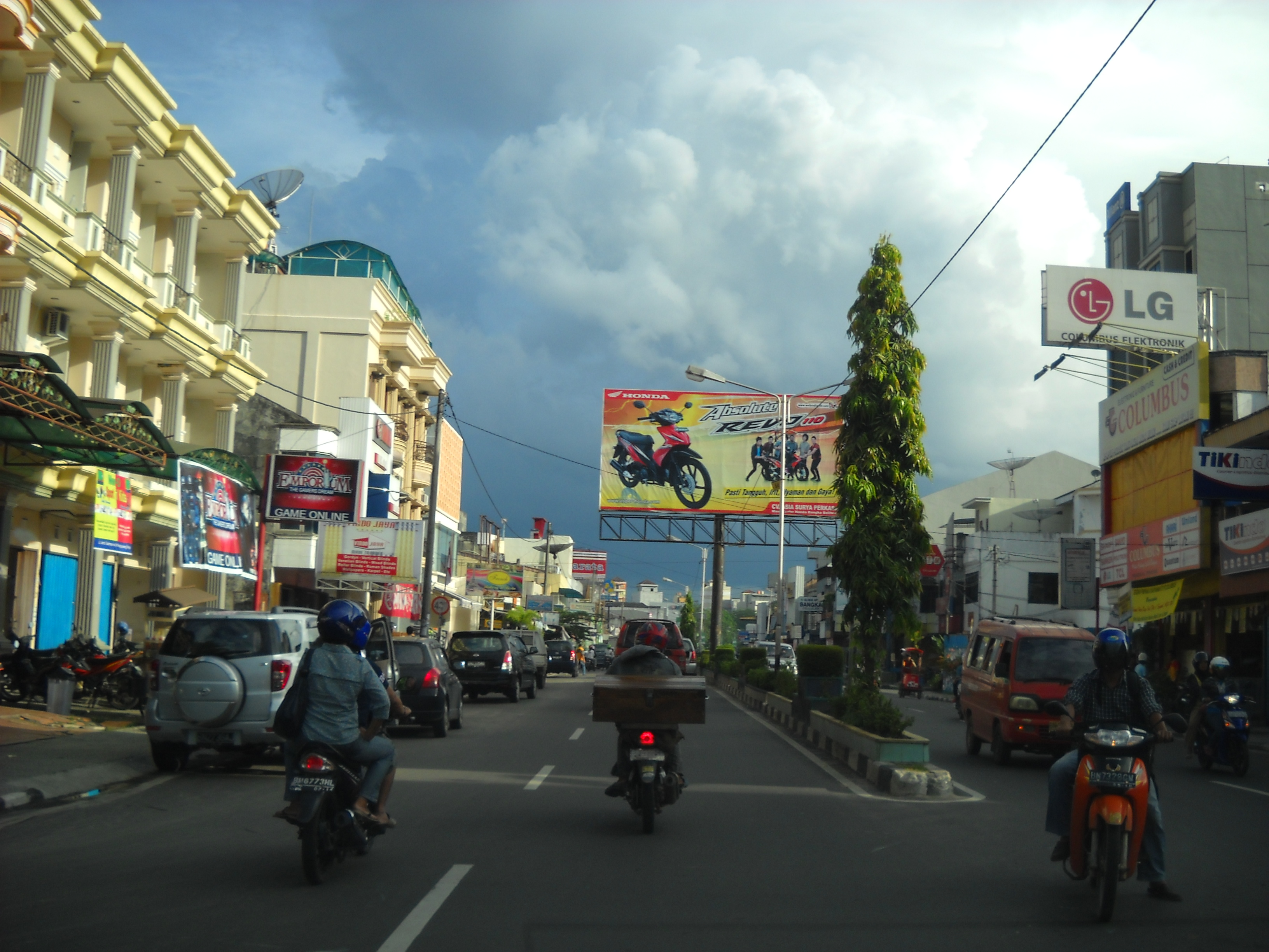 Jendral Sudirman Street, Pangkalpinang, Bangka Island.